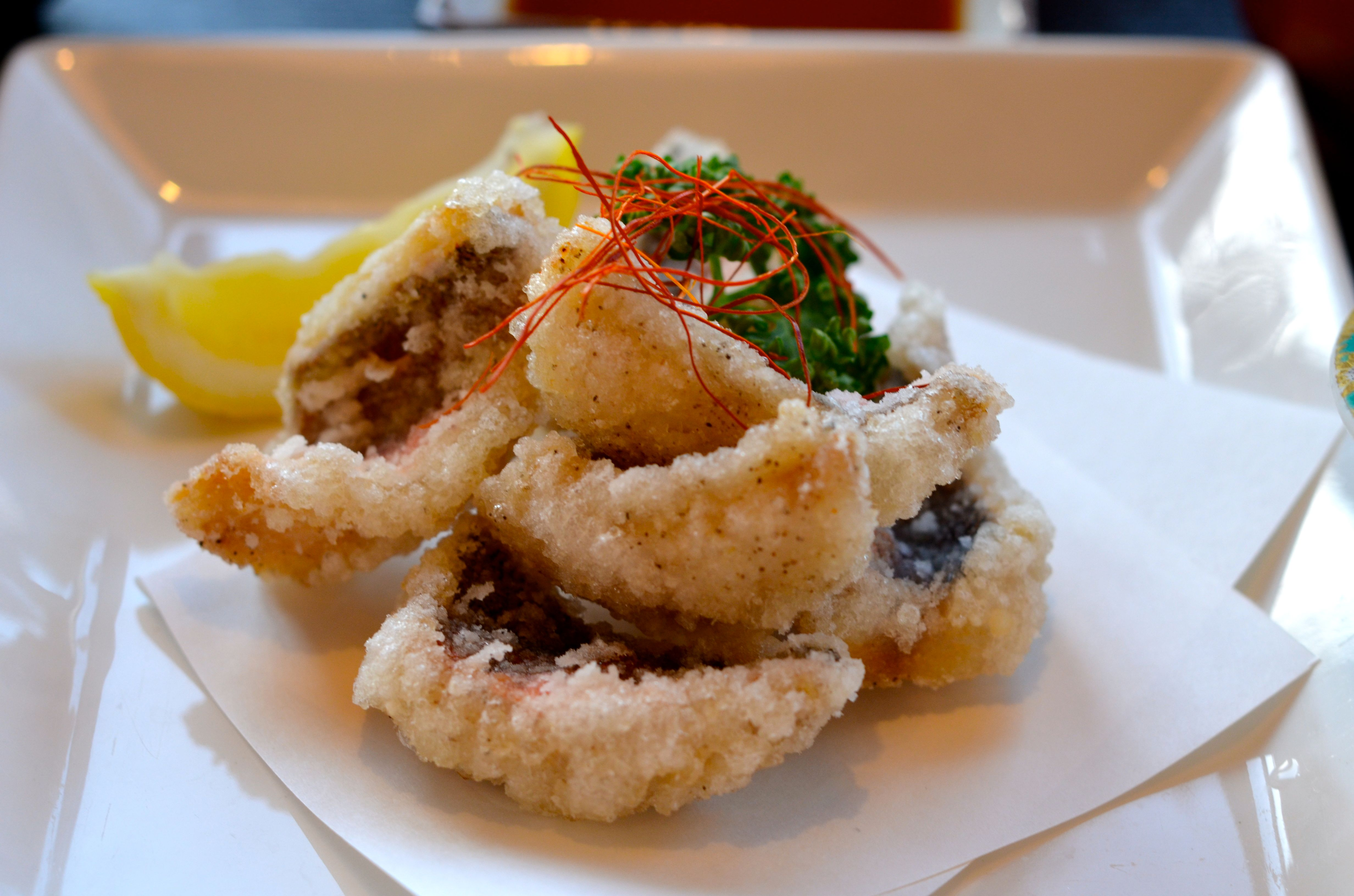 Deep-fried gurukun fish at Yumenoya, Ishigaki, Okinawa, Japan.